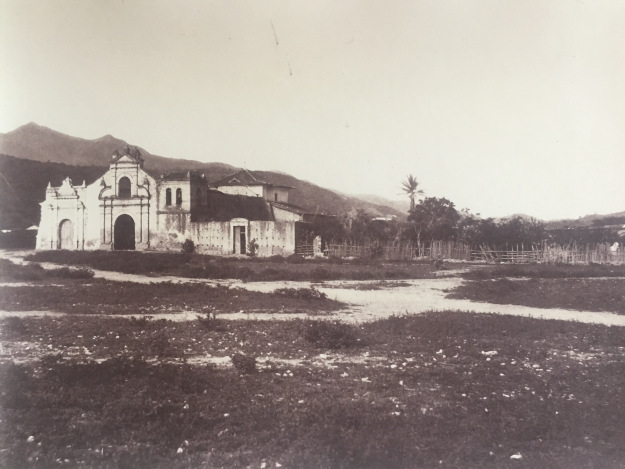 Church of San Mateo by Pal Rosti